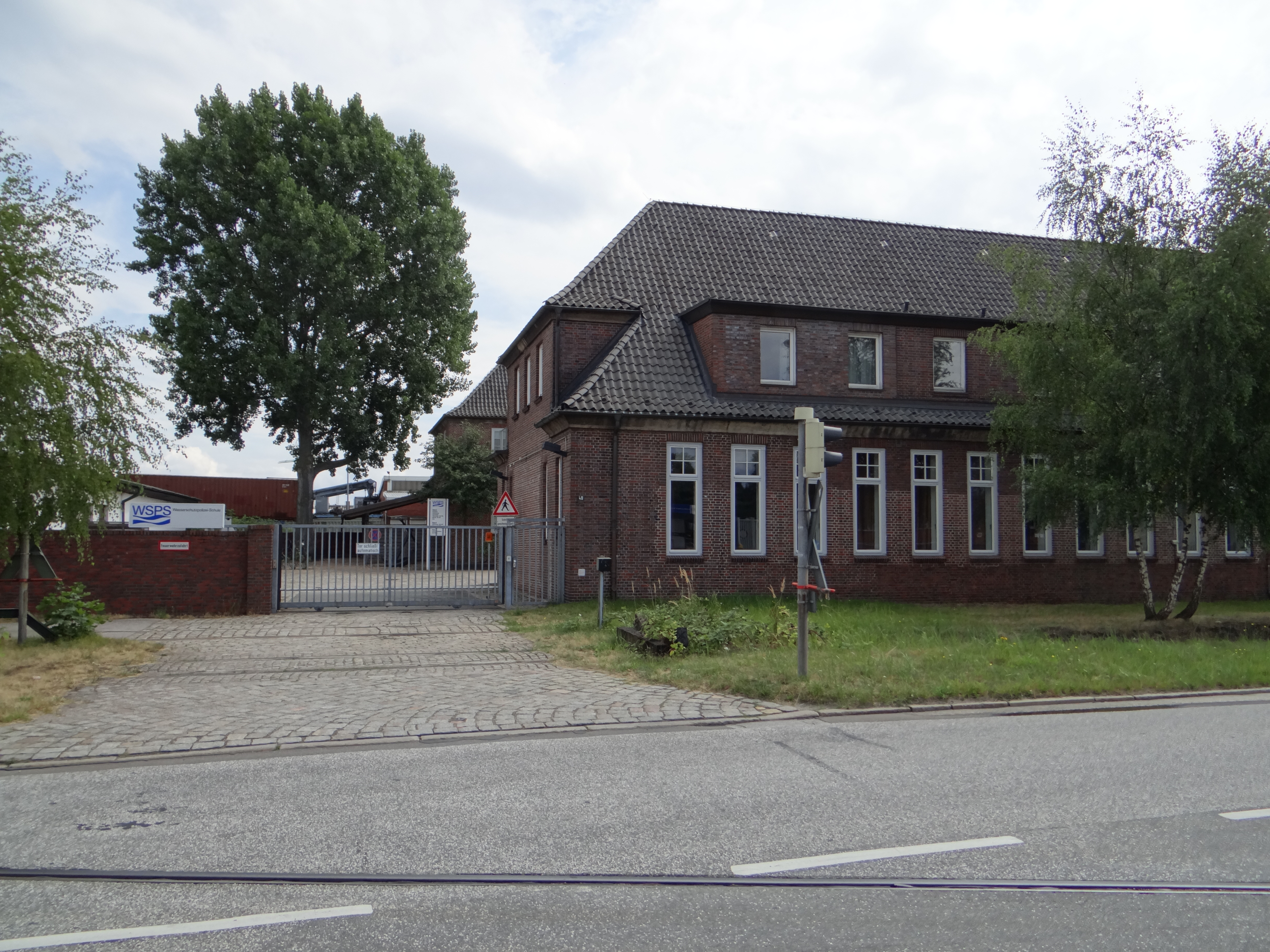 Water police school in Hamburg, Germany.